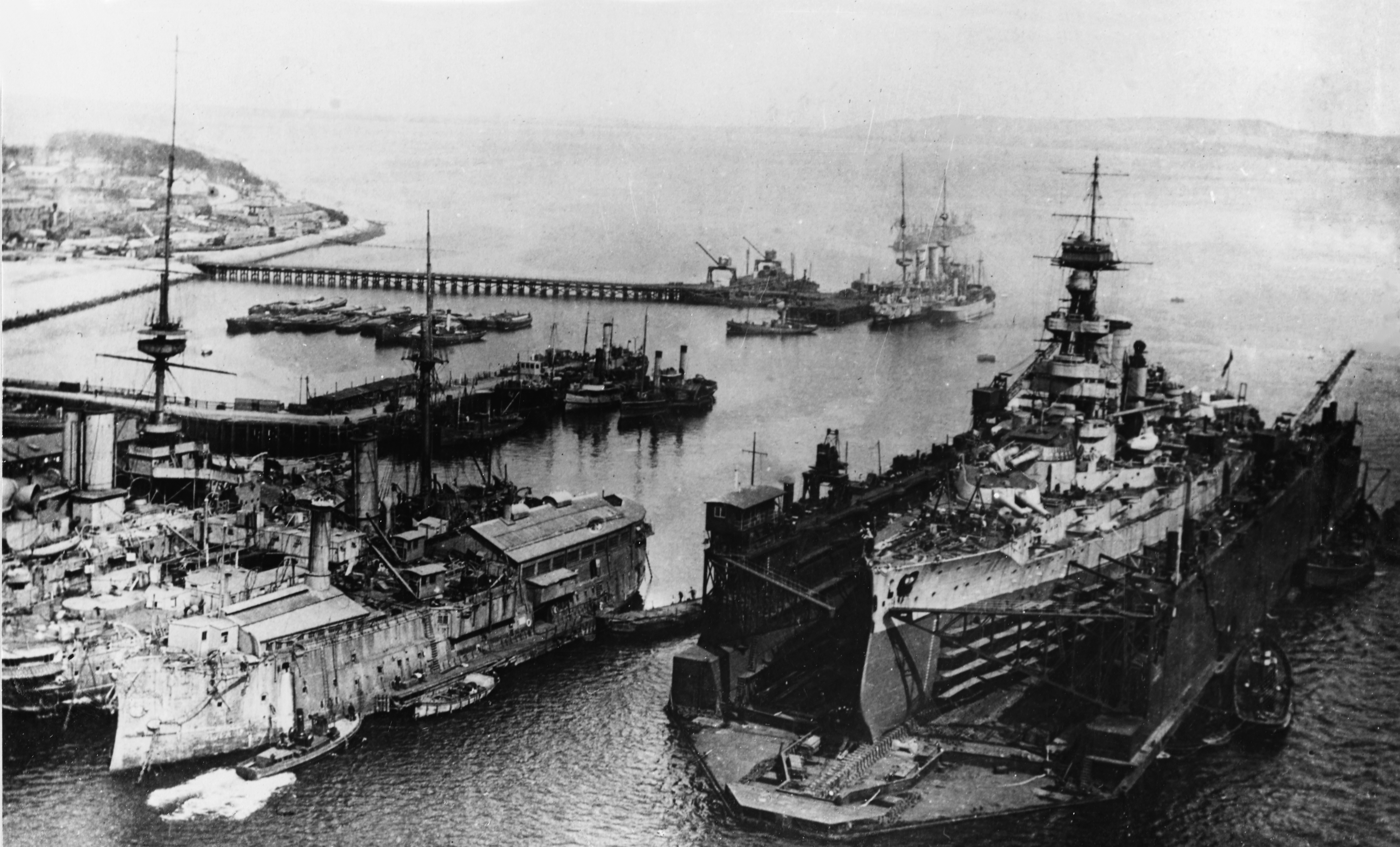 The British battleship HMS Erin in a floating dry dock, circa in 1918. The location may be Invergordon, Scotland (UK). In the left foreground are several old warships employed as barracks and for other stationary support duties. The one furthest right may be HMS Algiers (formerly HMS Triumph of 1873). That at the far left, with two smokestacks closely spaced side-by-side, may be HMS Mars of 1897.